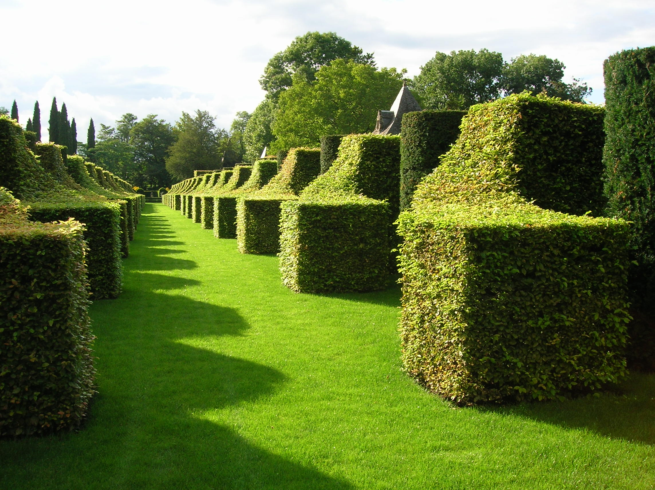 The Avenue of Hornbeams, in the gardens of Eyrignac Manor, in Dordogne (France). It is composed of Carpinus betulus and Taxus baccata